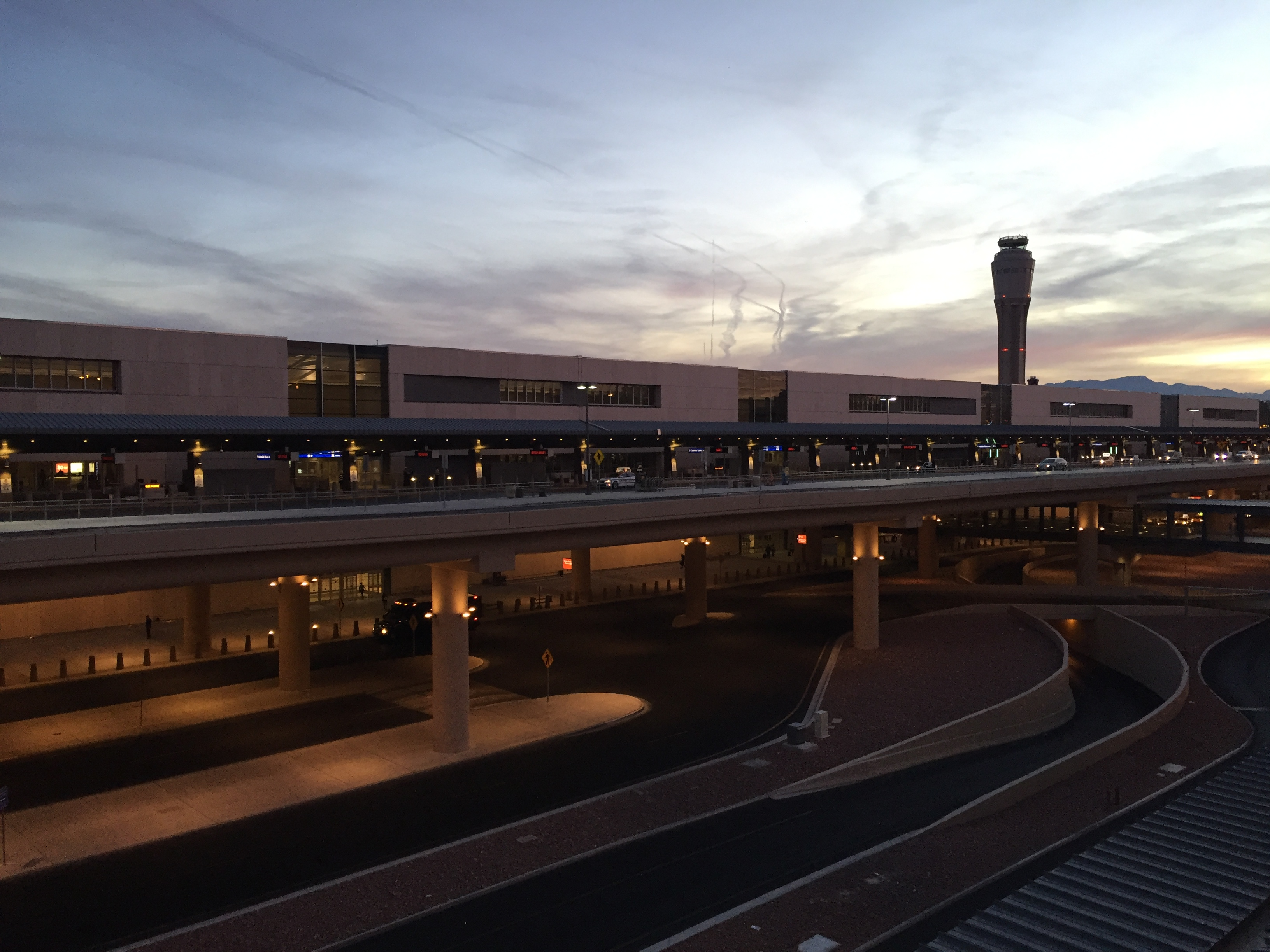 Terminal 3 at McCarran International Airport, Las Vegas, Nevada. As viewed from the pedestrian bridge to the parking garage.